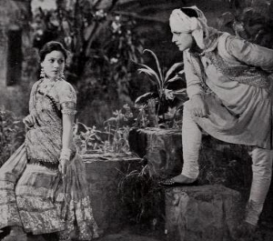 Screen shot from the cine magazine Filmindia (1940)